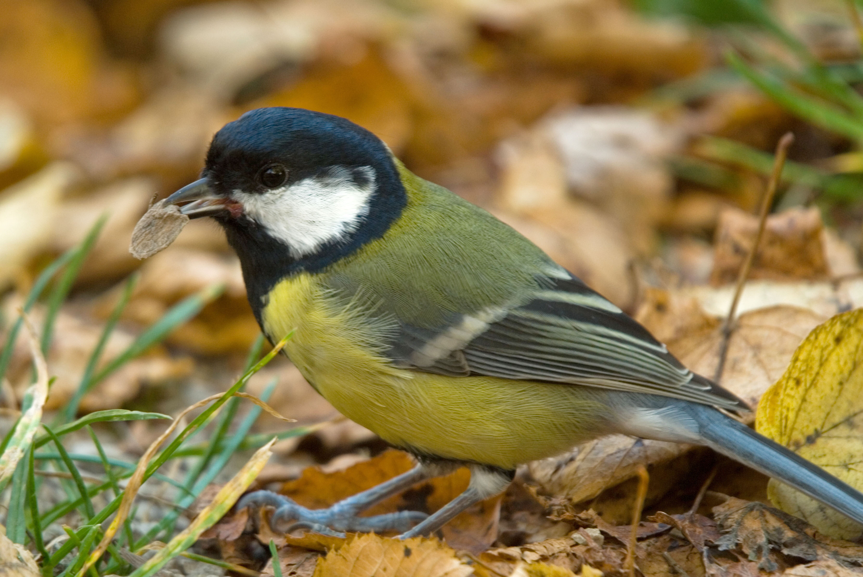 Great Tit